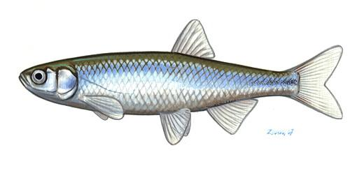 Moderlieschen or Belica (Leucaspius delineatus).